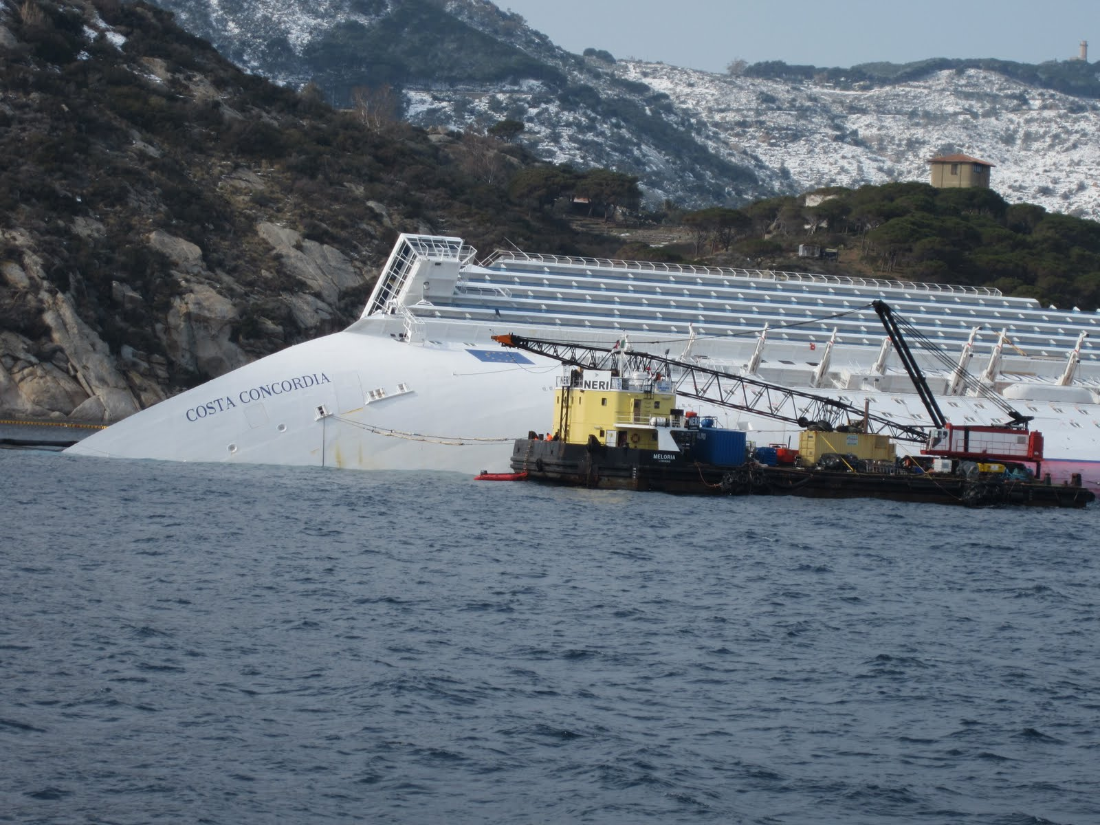 Ocean Crane Barge Meloria alongside the grounded and partially capsized Cruise ship Costa Concordia - 12 Feb. 2012